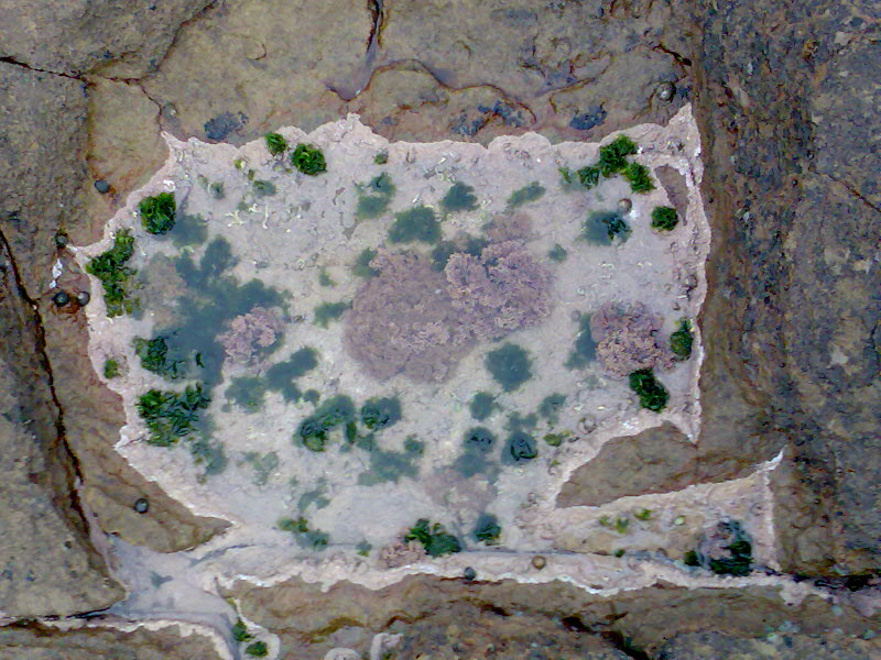 A (micro-climate) rock pool in the intertidal zone shown during low tide, Sunrise-on-Sea, South Africa.